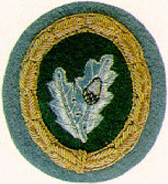 insignia of fuehrer fallschirmjaegerspezialeinsatz